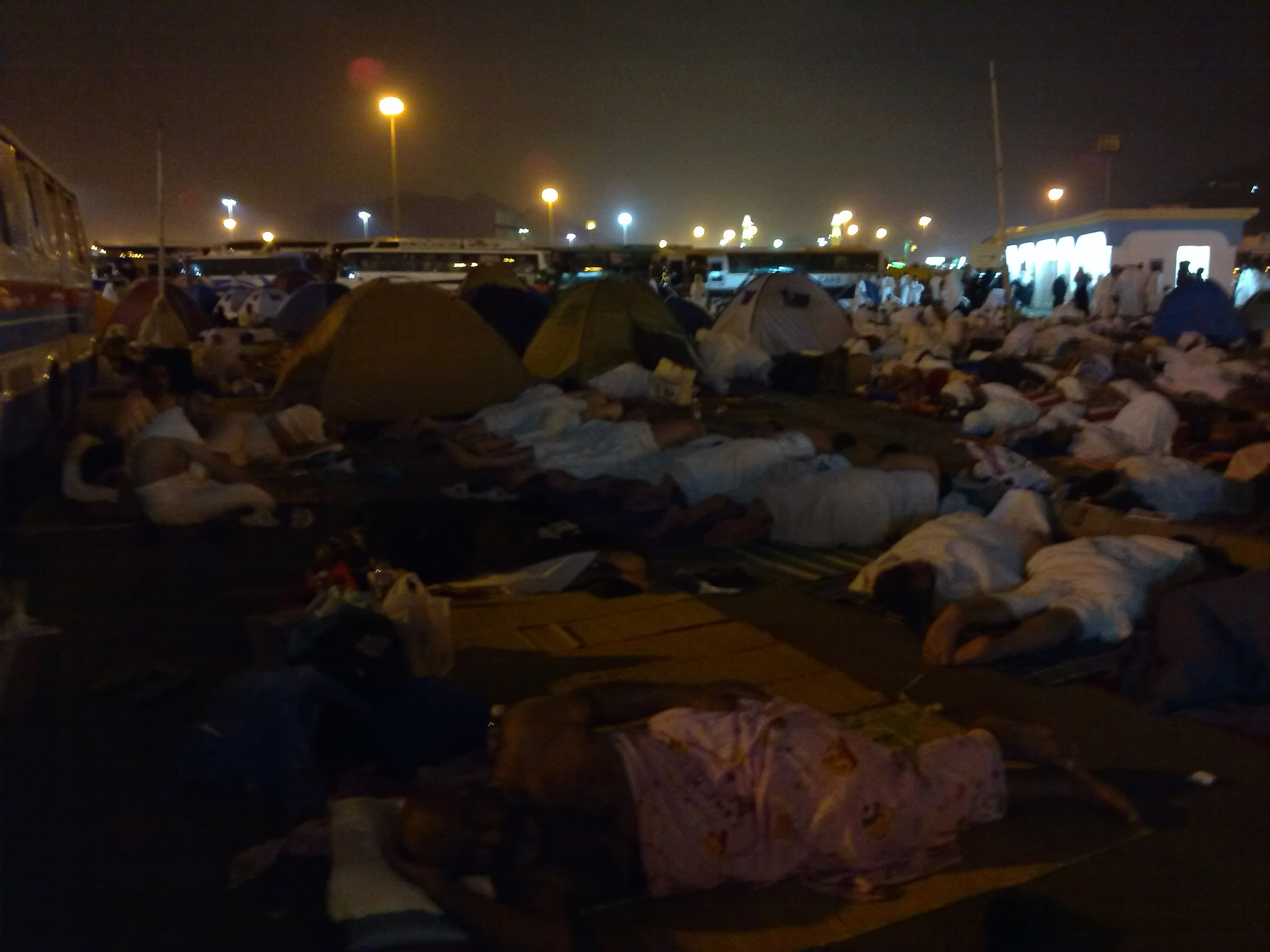 Sleeping people during Hajj